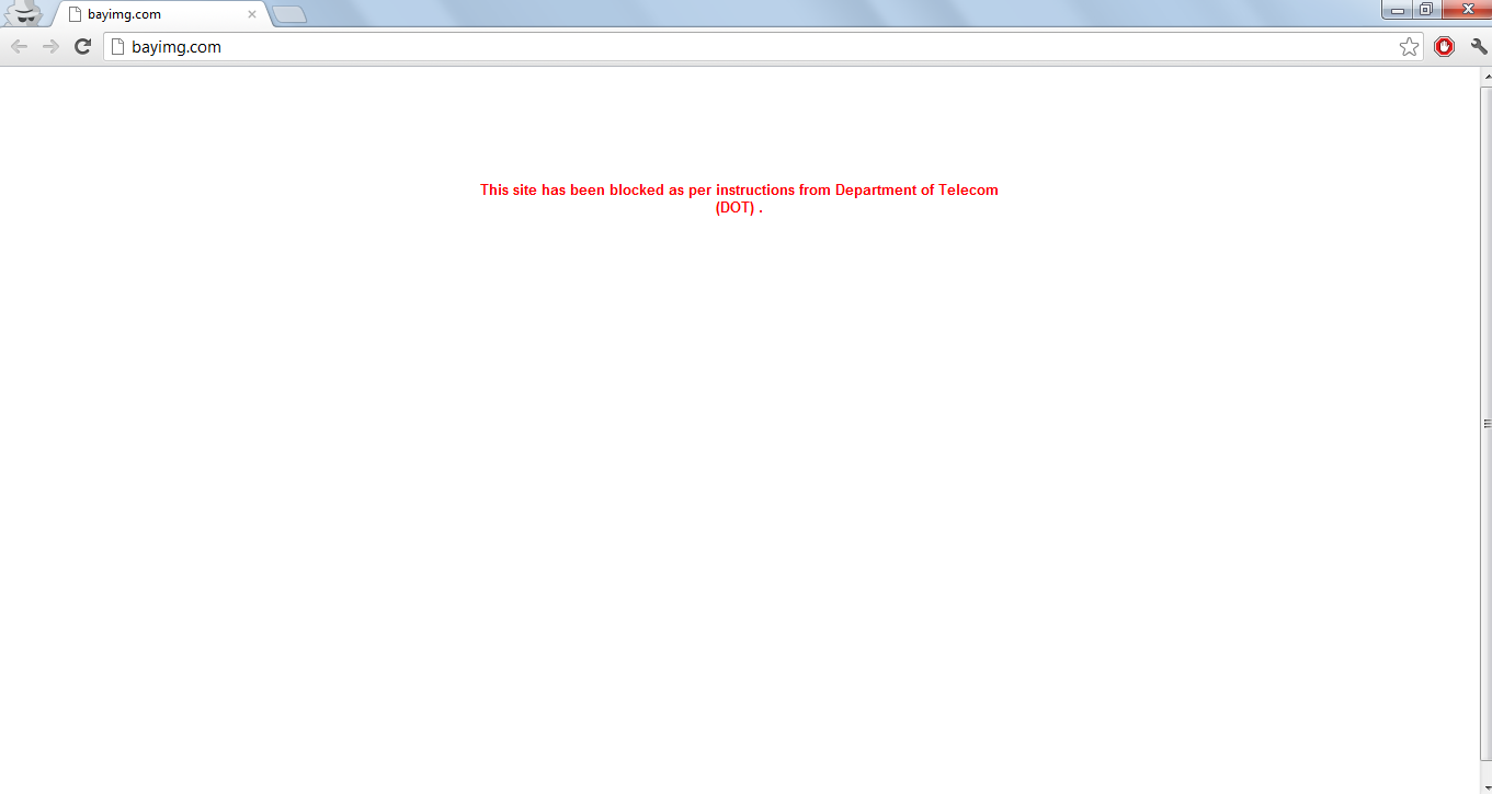 online censorship